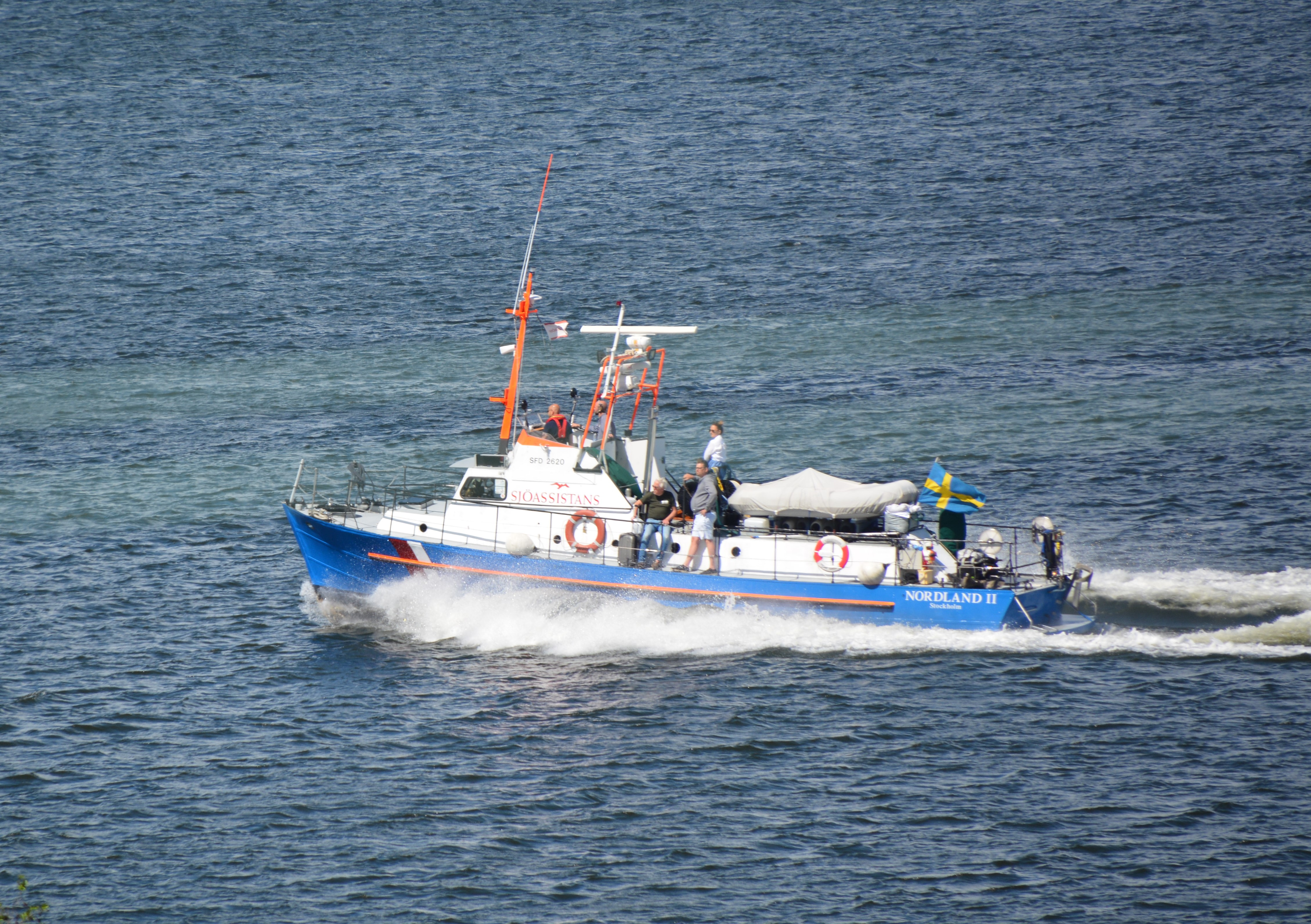 Nordland II, ex Swedish Customs Authority TV 222, built 1955 at Swede Ship Marine, 14.2 meter long. Owned by Sjöassistans, Stockholm